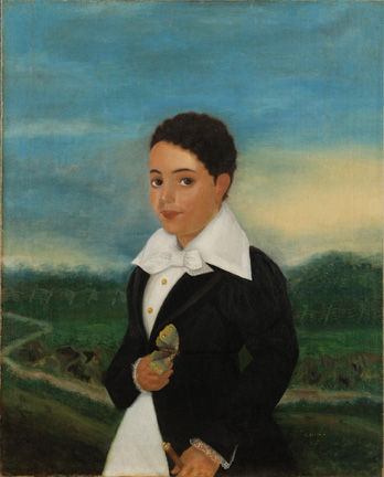 Creole Boy with a Moth, by Julien Hudson, New Orleans, 1835.